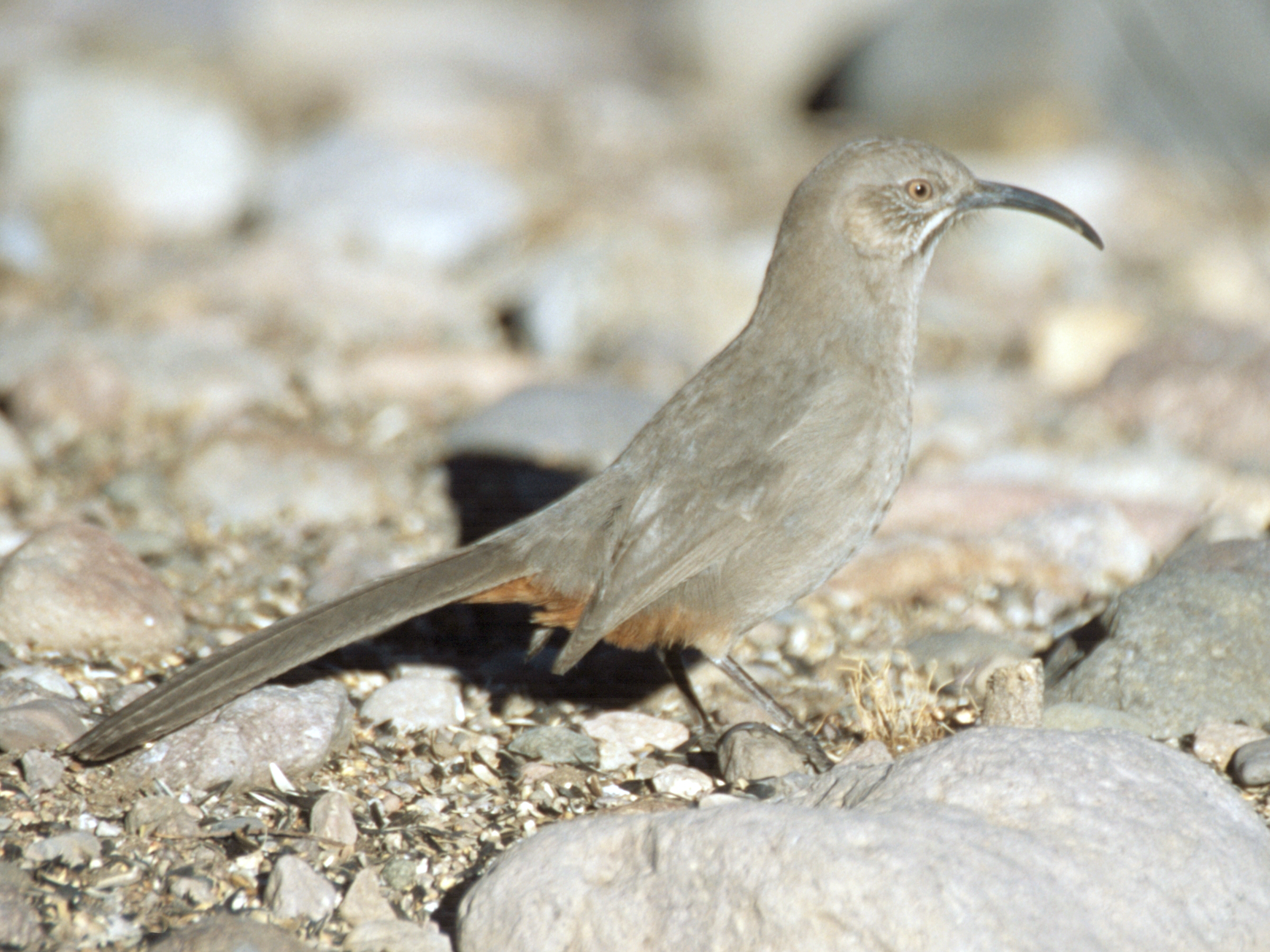 Crissal Thrasher (Toxostoma crissale.jpg)